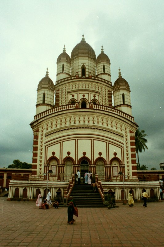 Dakshineshwar Kali temple (main shrine) in Kolkata (Calcutta), West Bengal.